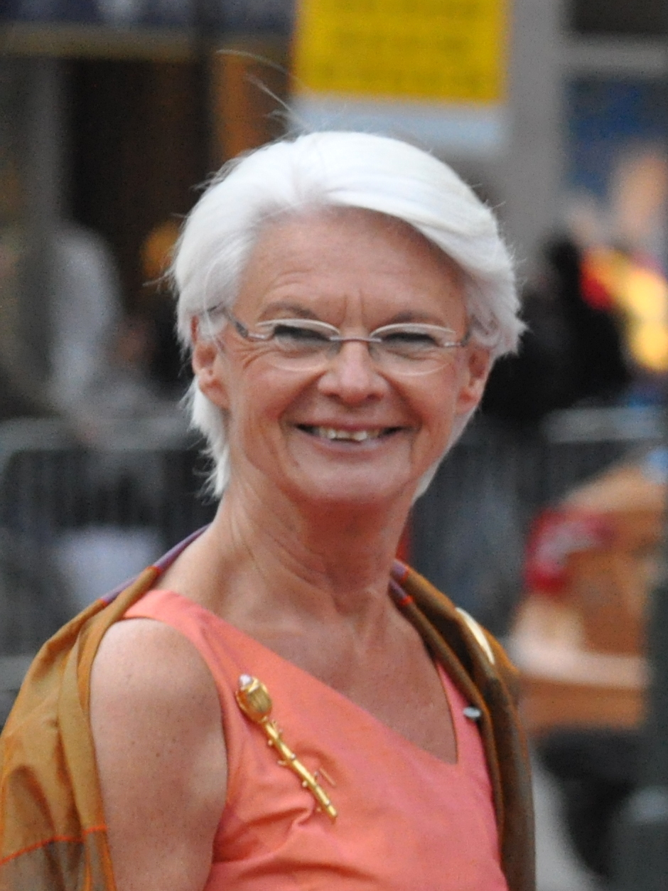 Wedding of Victoria, Crown Princess of Sweden, and Daniel Westling; Arrival of members for the Gouvernment and Swedish and foreign guests of hounour to the Riksdag's Gala Performance at Konserthuset